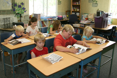 A group shot of Excel kids in a classroom at Hope Chapel.